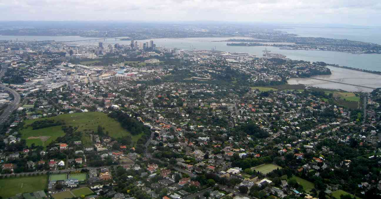 Photo of Auckland (New Zealand) taken from a helicopter on 12:31 pm (NZDT), December 21, 2003. Using a Canon Powershot S50, 3.5mm lens.